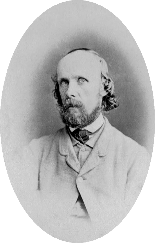 Arthur Gilbert (1819-1895), Landscape Artist